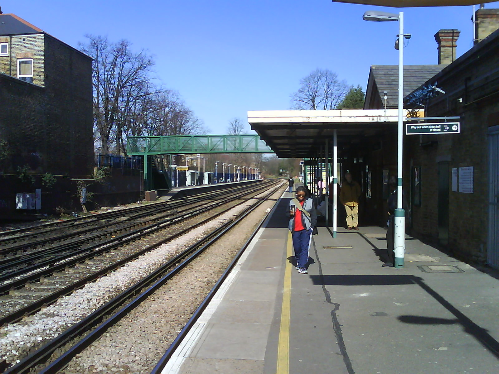 A photo of Sydenham railway station, showing the non-standard platform layout